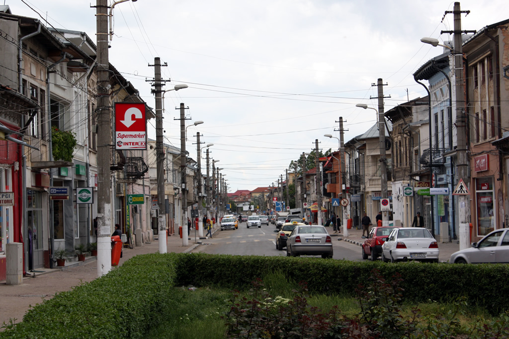 Garii street in Giurgiu